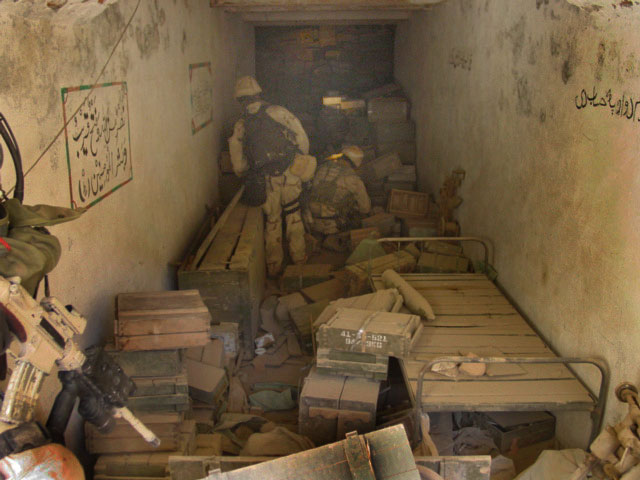 US Navy SEALs clearing cave complexes in Zwahar Kili